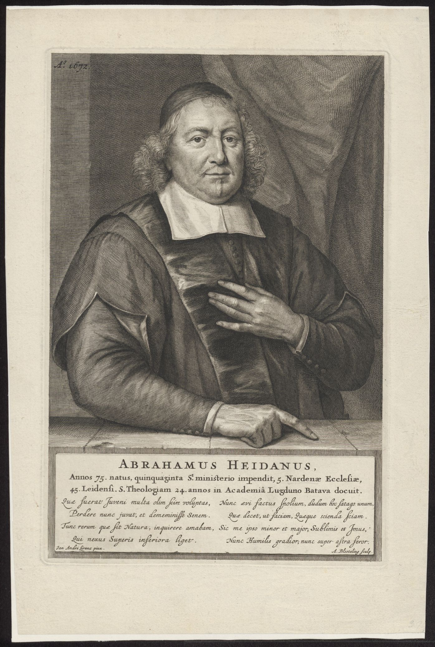 Portrait of Abraham Heidanus (also Heydanus, van Heiden or van Heyden) (1597–1678), Dutch Calvinist minister.